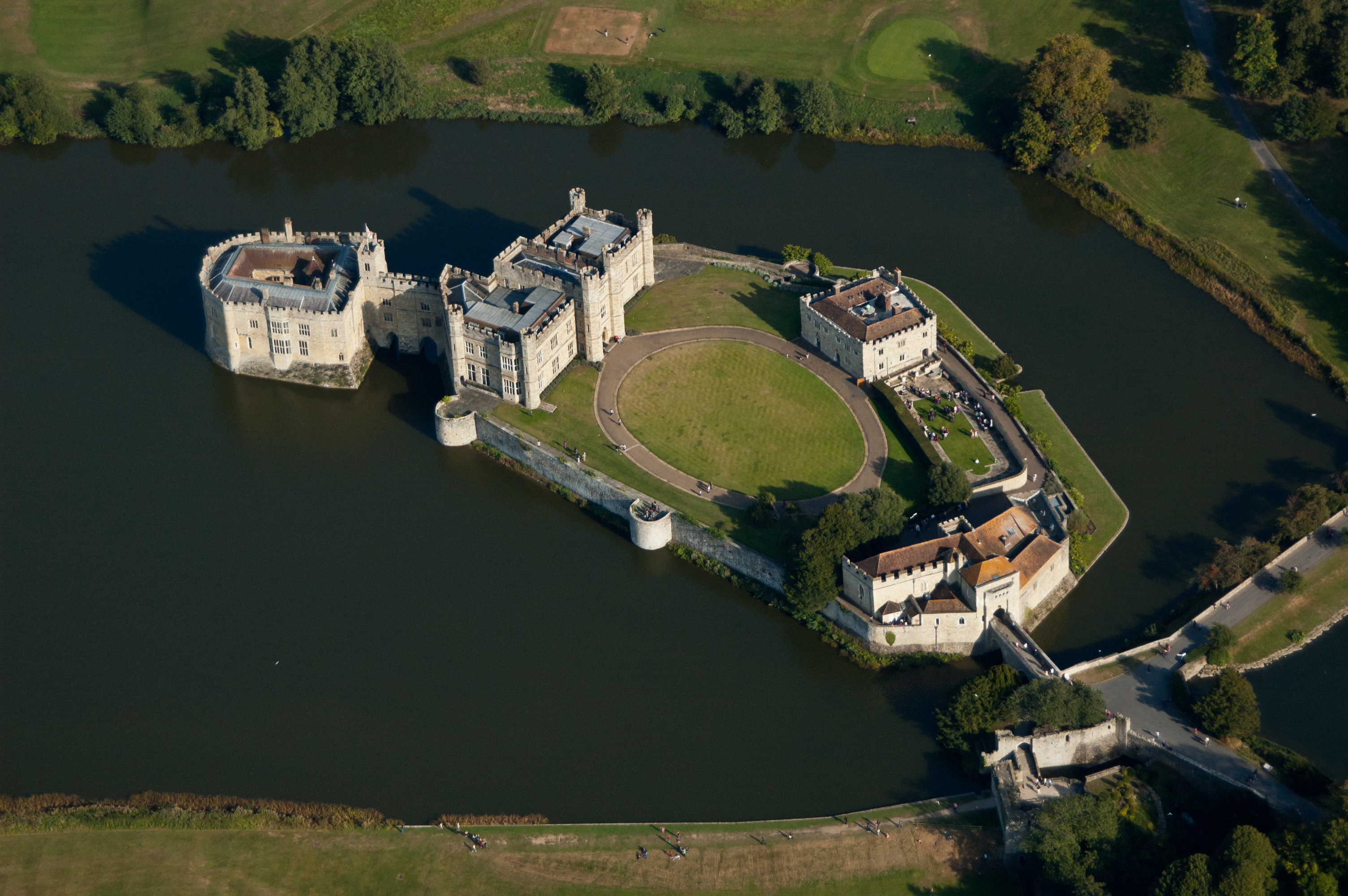 LEEDS CASTLE (Kent) - Aerial photograph Wikidata has entry Q17529830 with data related to this building.